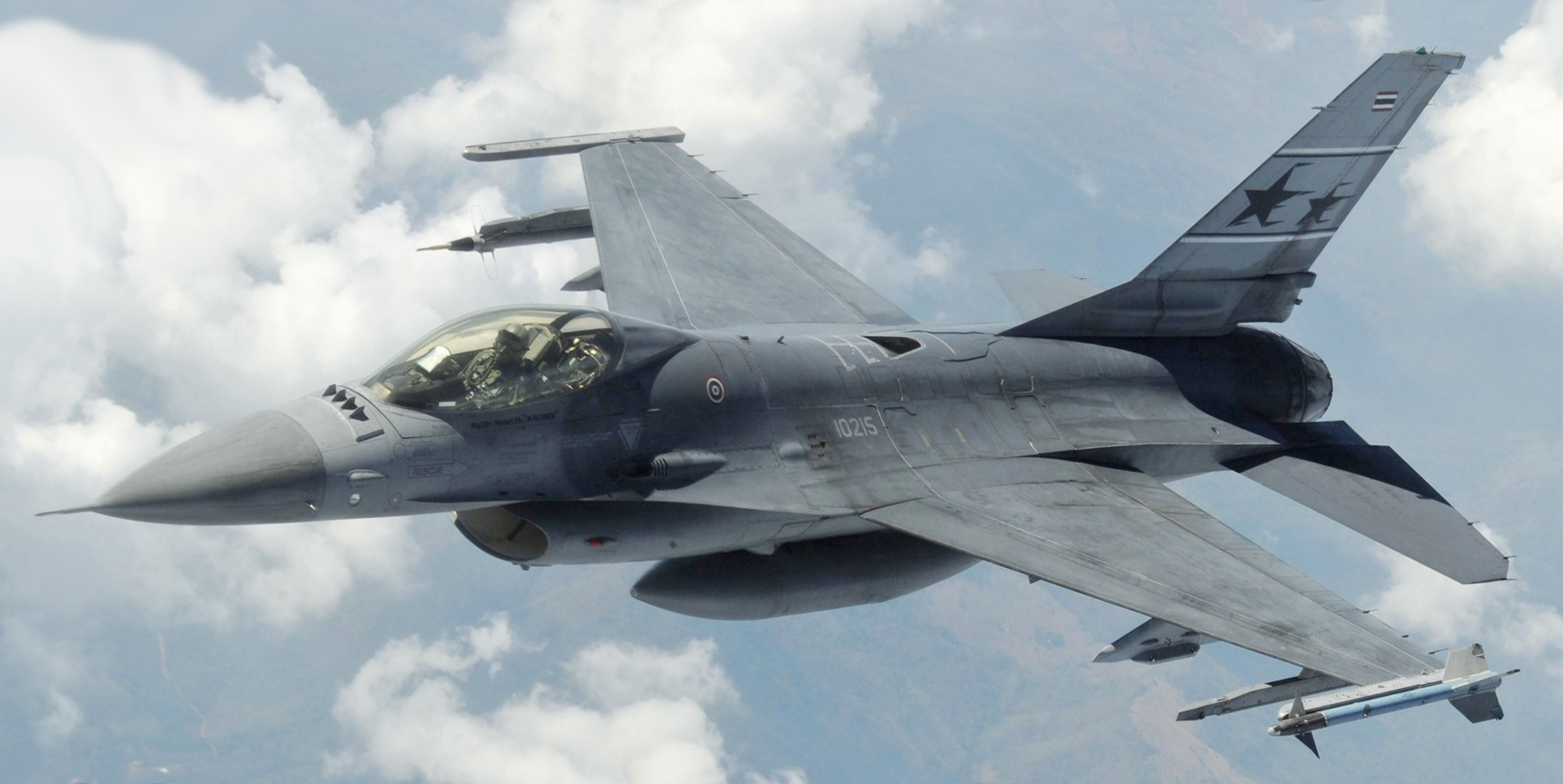 An F-16 from the Royal Thai Air Force descends into formation after being refueled by a KC-135 from the 96th Air Refueling Squadron, Joint Base Pearl Harbor-Hickam, Hawaii, March 21, over Thailand air space before continuing maneuvers during Cope Tiger 2011, an annual, multilateral, joint field training exercise currently being conducted at Korat and Udon Thani Royal Thai Air Base (cropped, color corrected. and rotation 97° from this image)